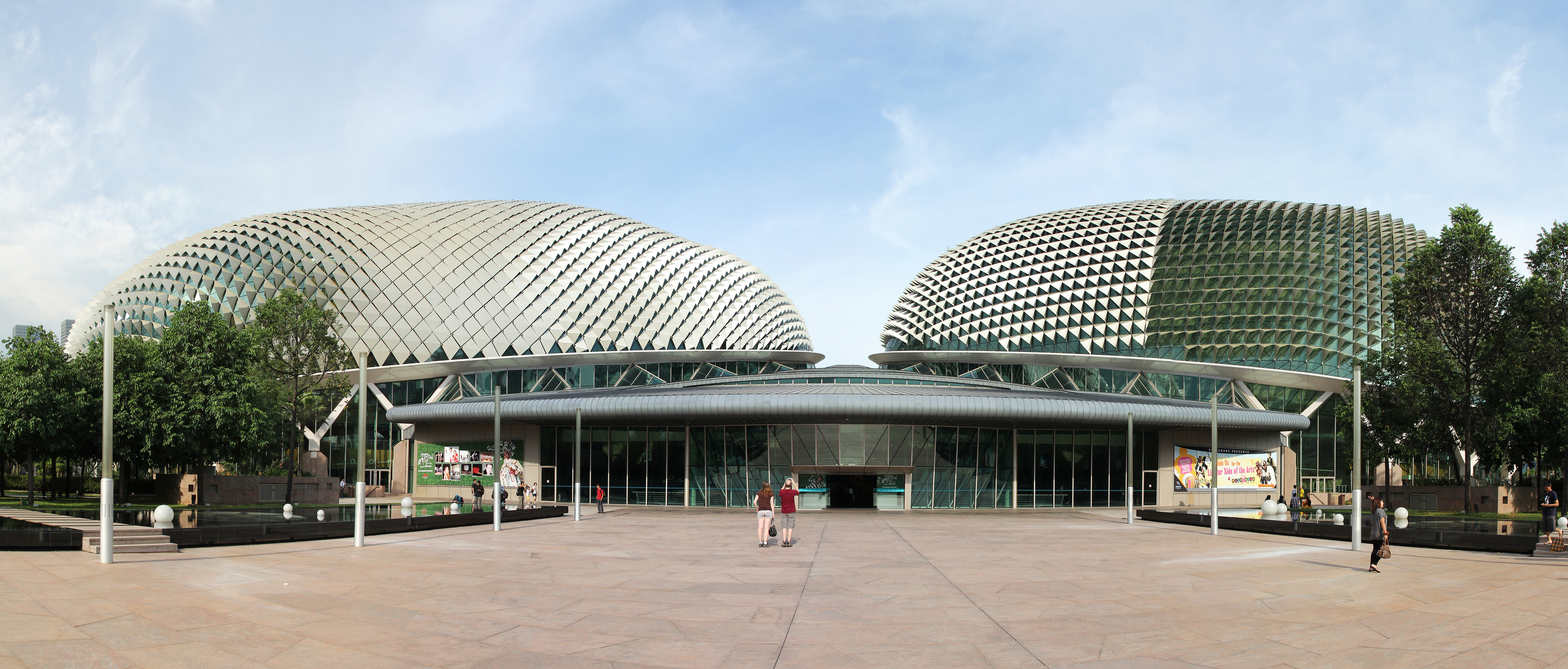 The Theatre and Concert Hall of Esplanade – Theatres on the Bay in Singapore.